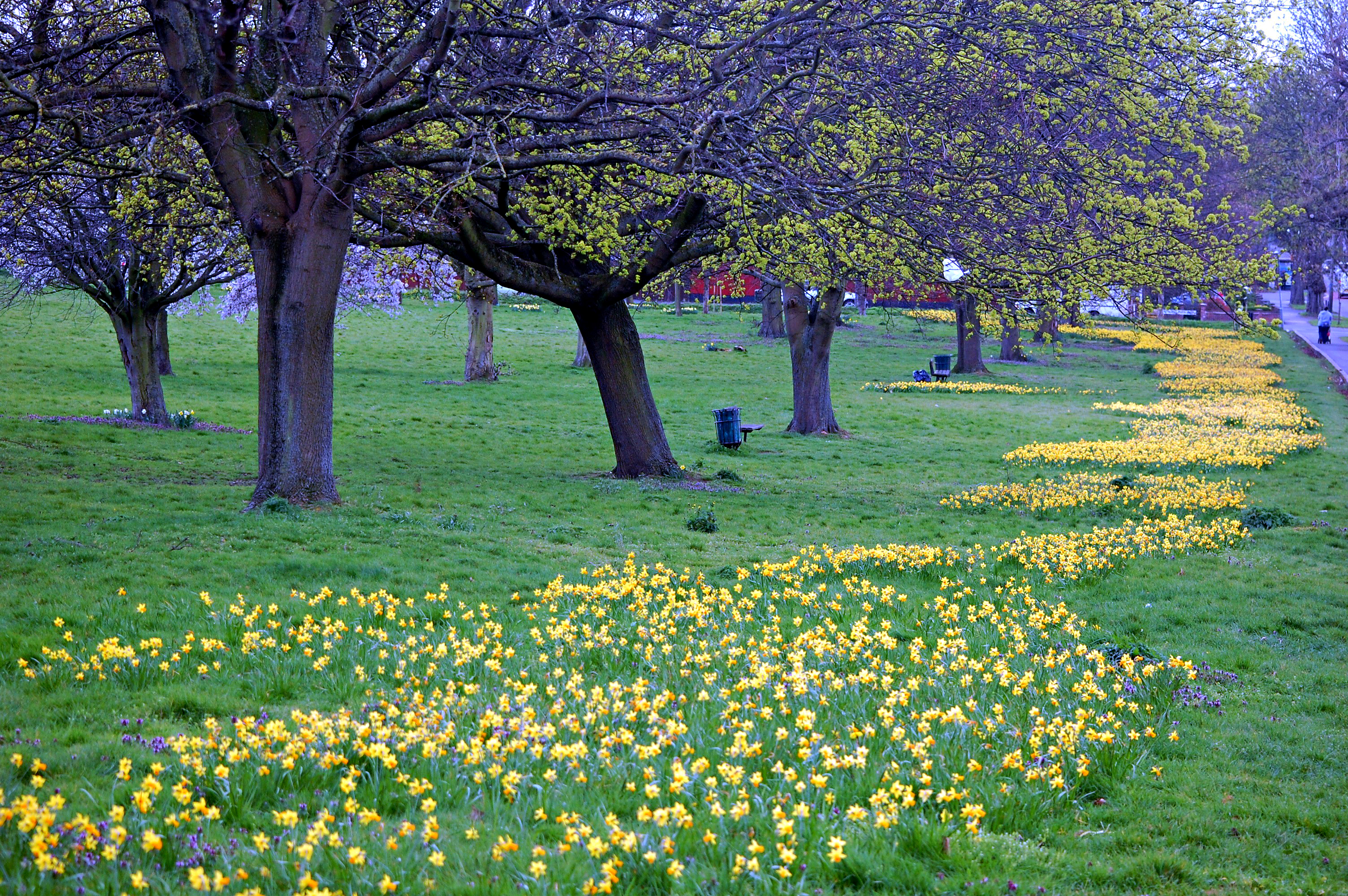 21 March Rosehill (2)